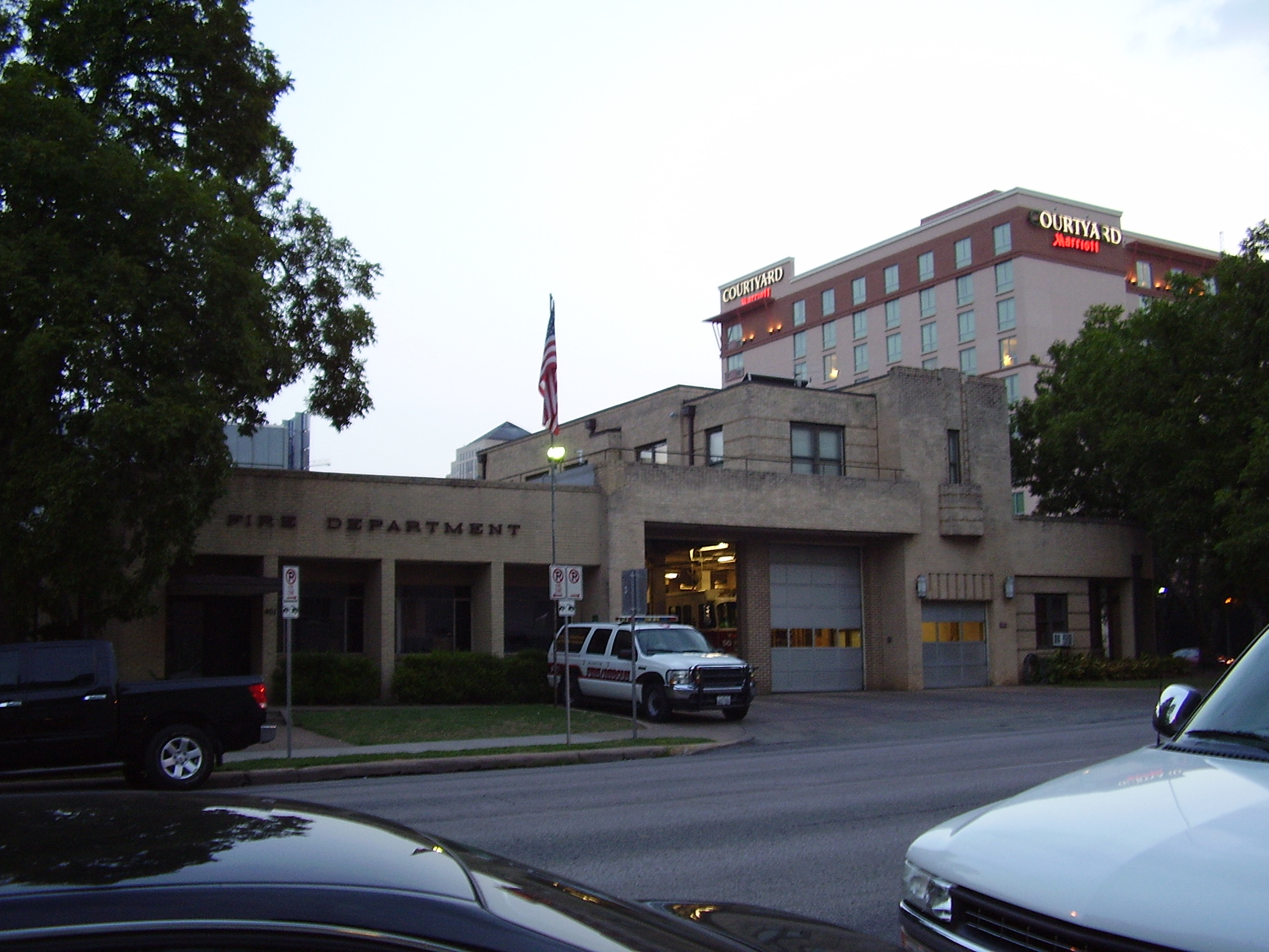 Austin Fire Department Station 1, at 401 East Fifth Street, is on the National Register of Historic Places